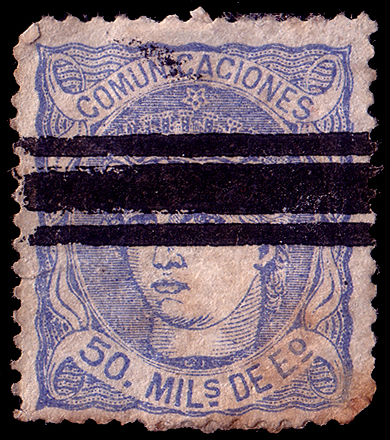 Postage stamp of Spain, cancelled-to-order, 50 milesimas, 1870